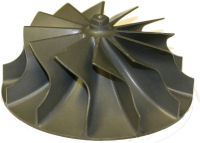 An investment cast turbocharger turbine.